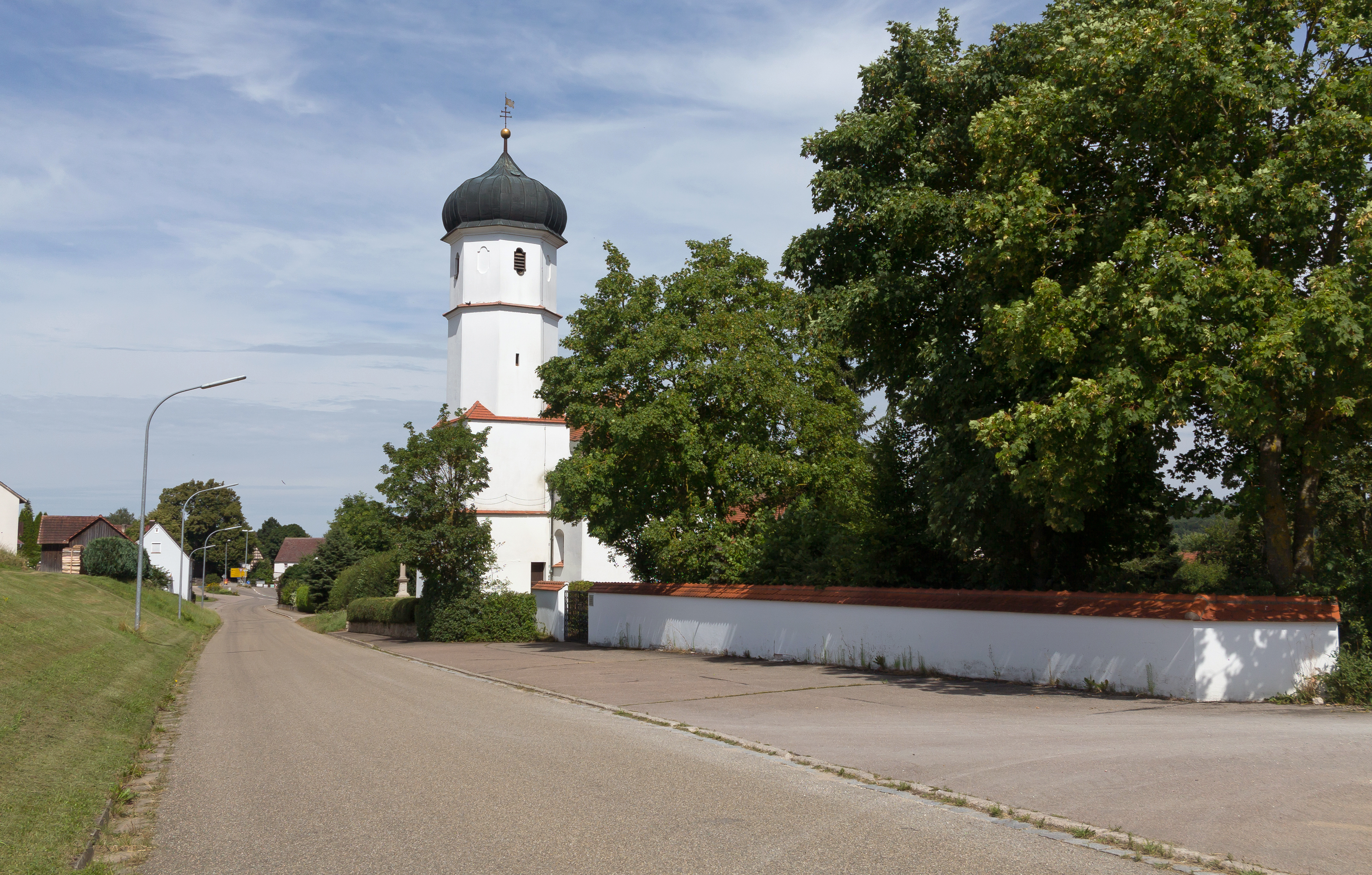 Fremdingen, church: katholische Kapelle Sankt LeonhardThis is a photograph of an architectural monument.